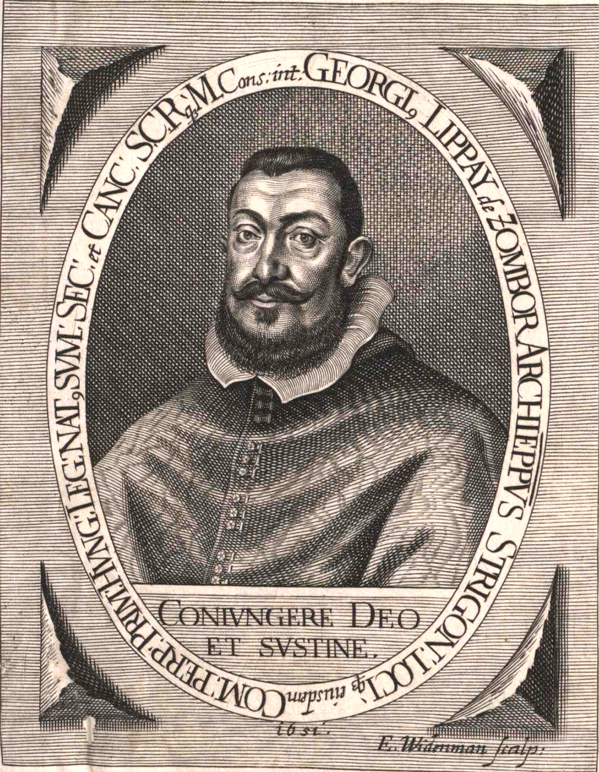 George Lippay / Lippay György. Hungarian archbishop and alchemist.